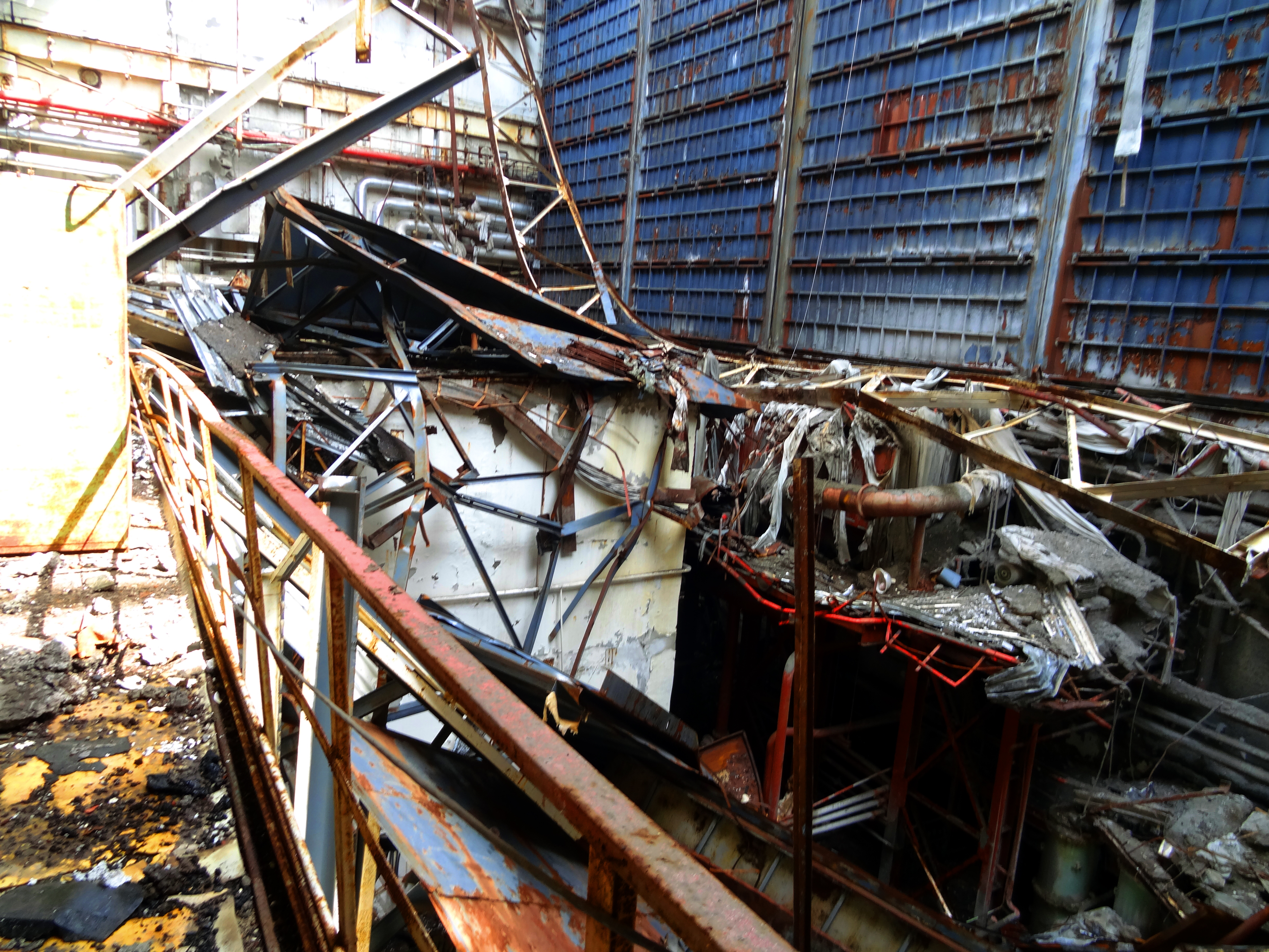 From 3 to 7 June 2013, an International Atomic Energy Agency team visited the Turbine Hall of Chernobyl Nuclear Power Plant Unit 4, where a portion of the roof partially collapsed on 12 February 2013. The plant requested the team to assess the root causes of the collapse, any radiological consequences of the incident, and the plant's response to the event. These images show the damaged roof from both inside and outside the building. Photo Credit: Norbert Molitor